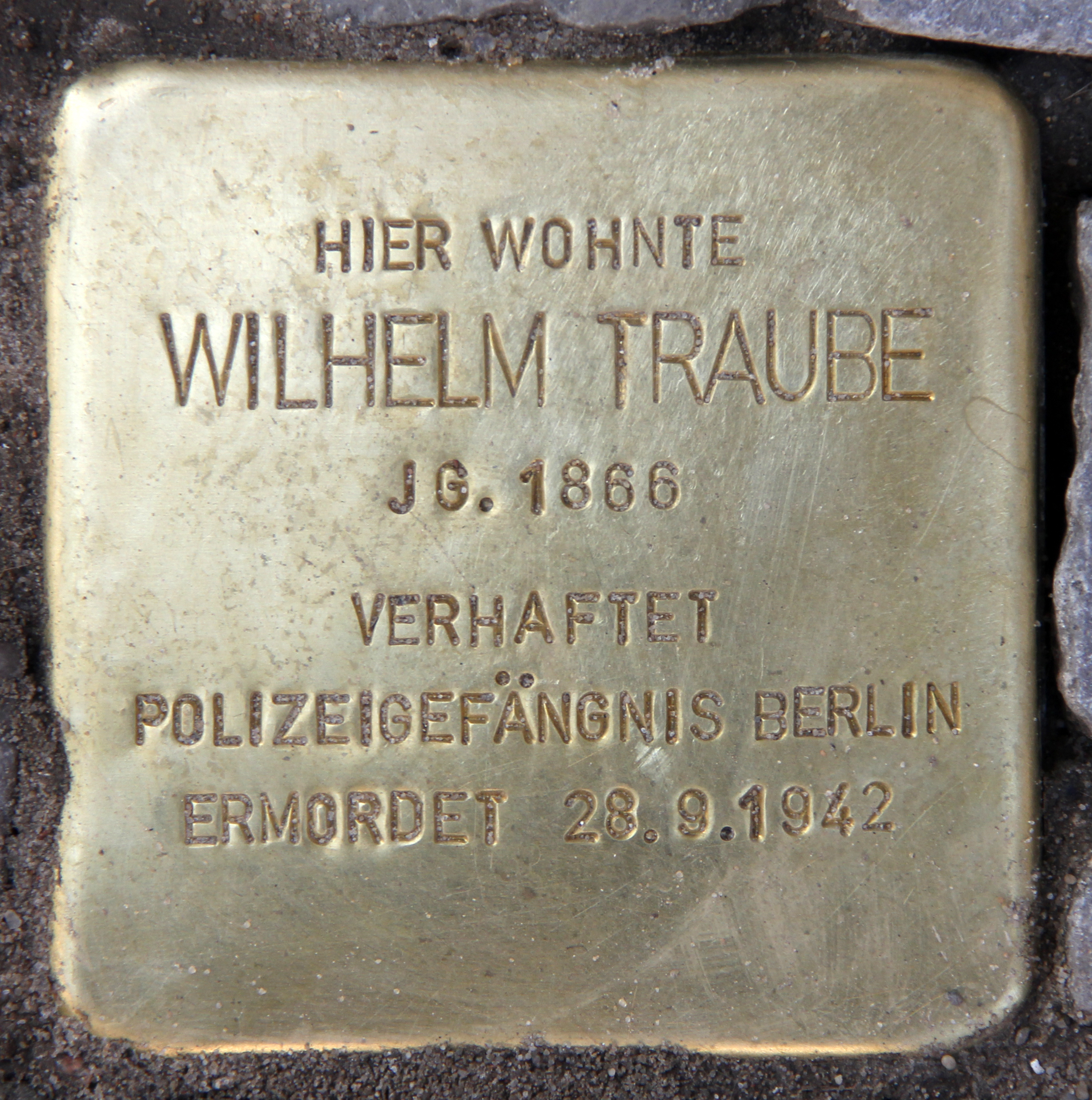 "Stolperstein" (stumbling block), Wilhelm Traube, Sybelstraße 61, Berlin-Charlottenburg, Germany